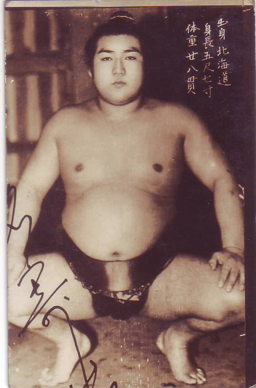 Bromide from Nayoroiwa Shizuo.